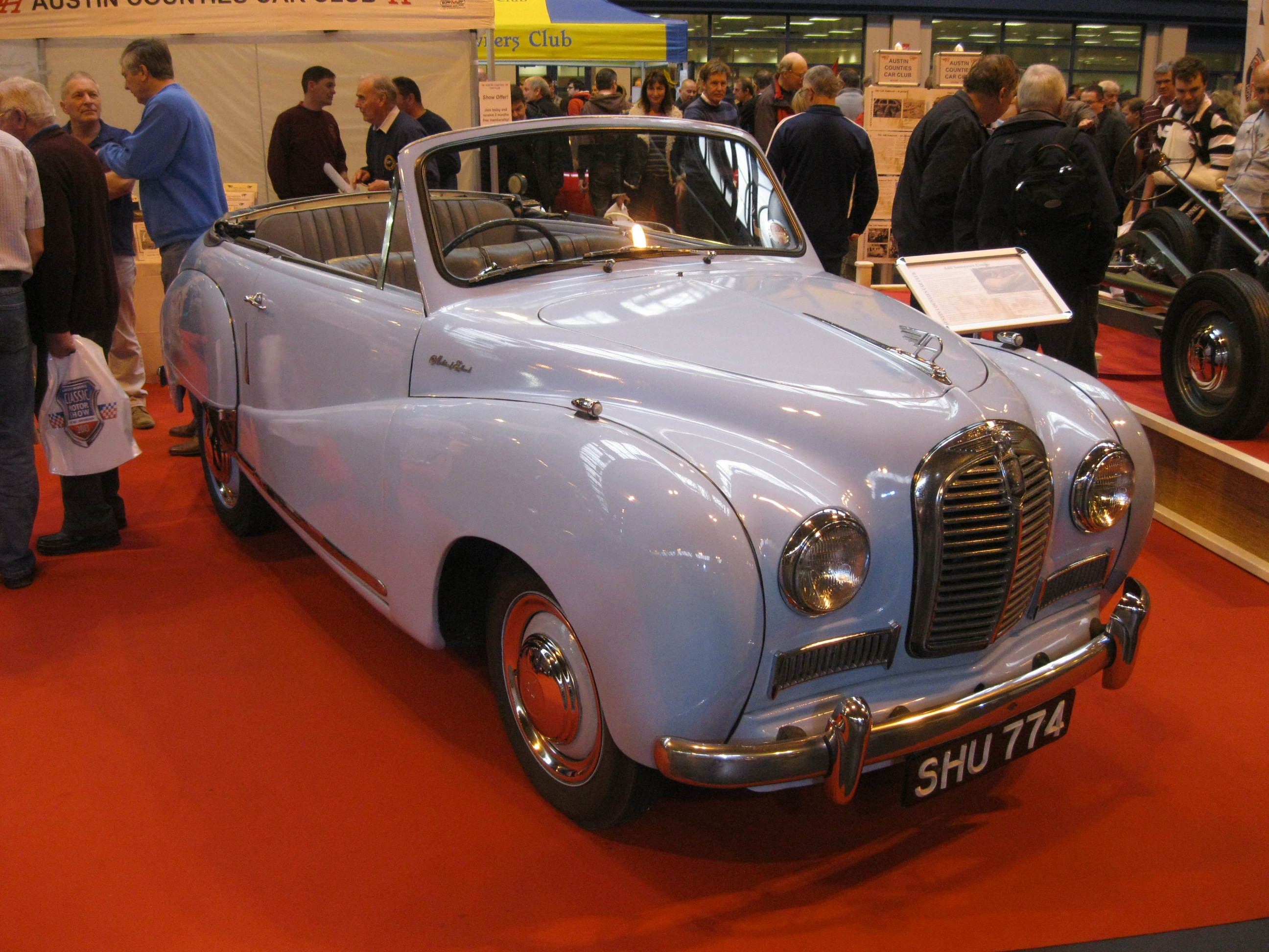 Exhibited at the Classic Car show, NEC Birmingham, 15-17 November 2013